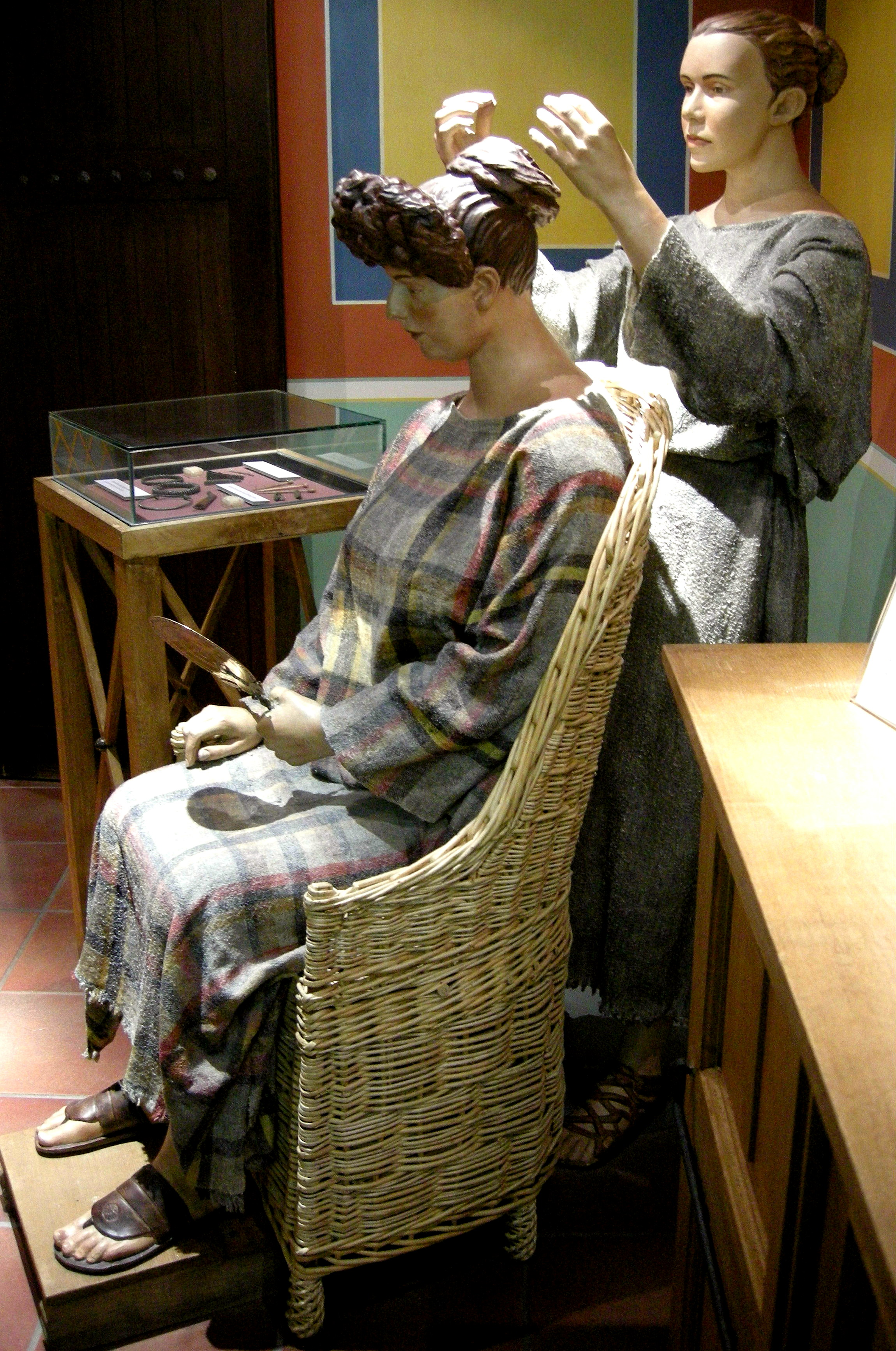 Roman Museum in Butchery Lane, Canterbury, Kent, United Kingdom. Reconstruction of Roman woman with polished metal mirror and slave. Genuine Roman jewellery is in glass case in background.